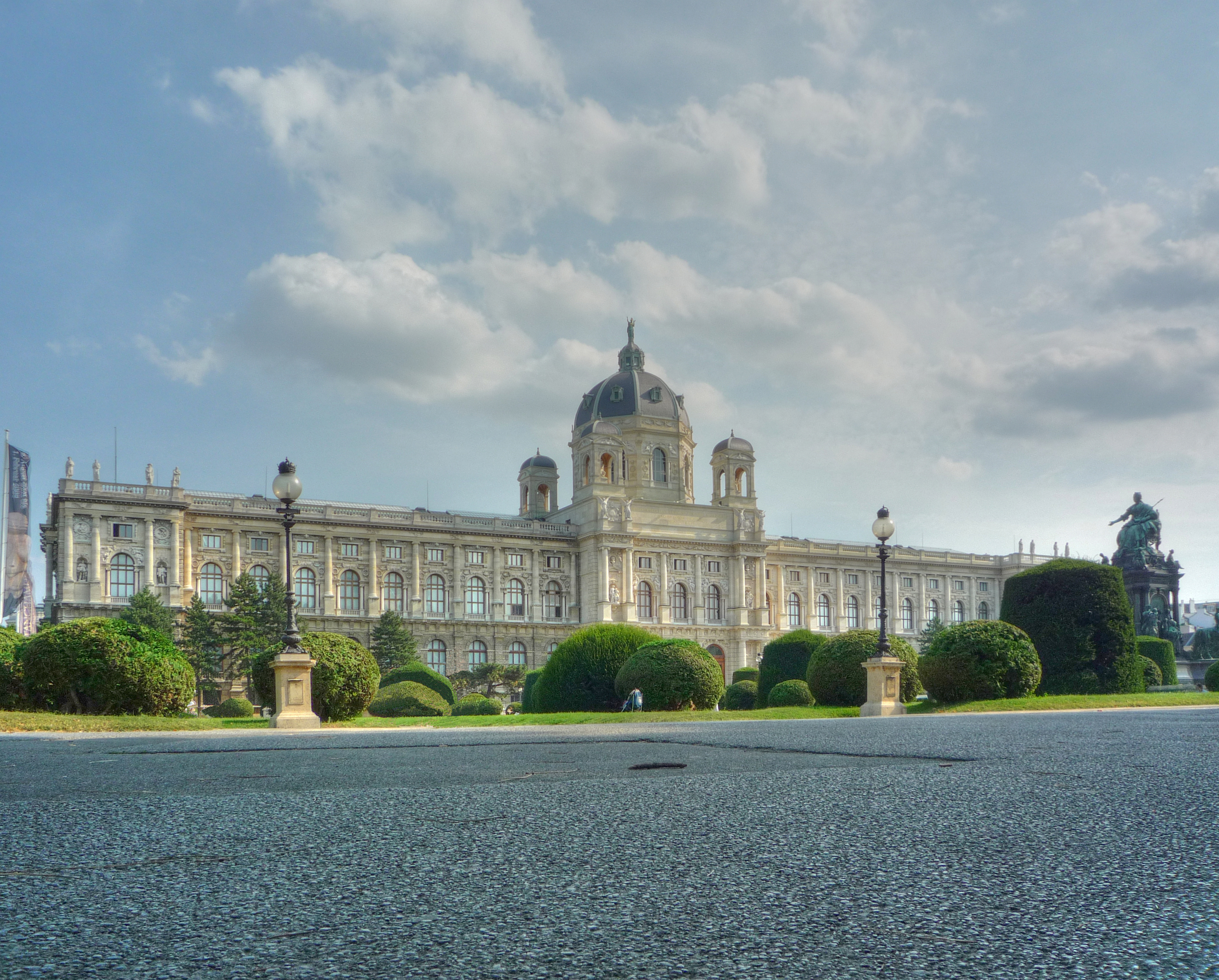 Austria, Vienna, Kunsthistorisches Museum